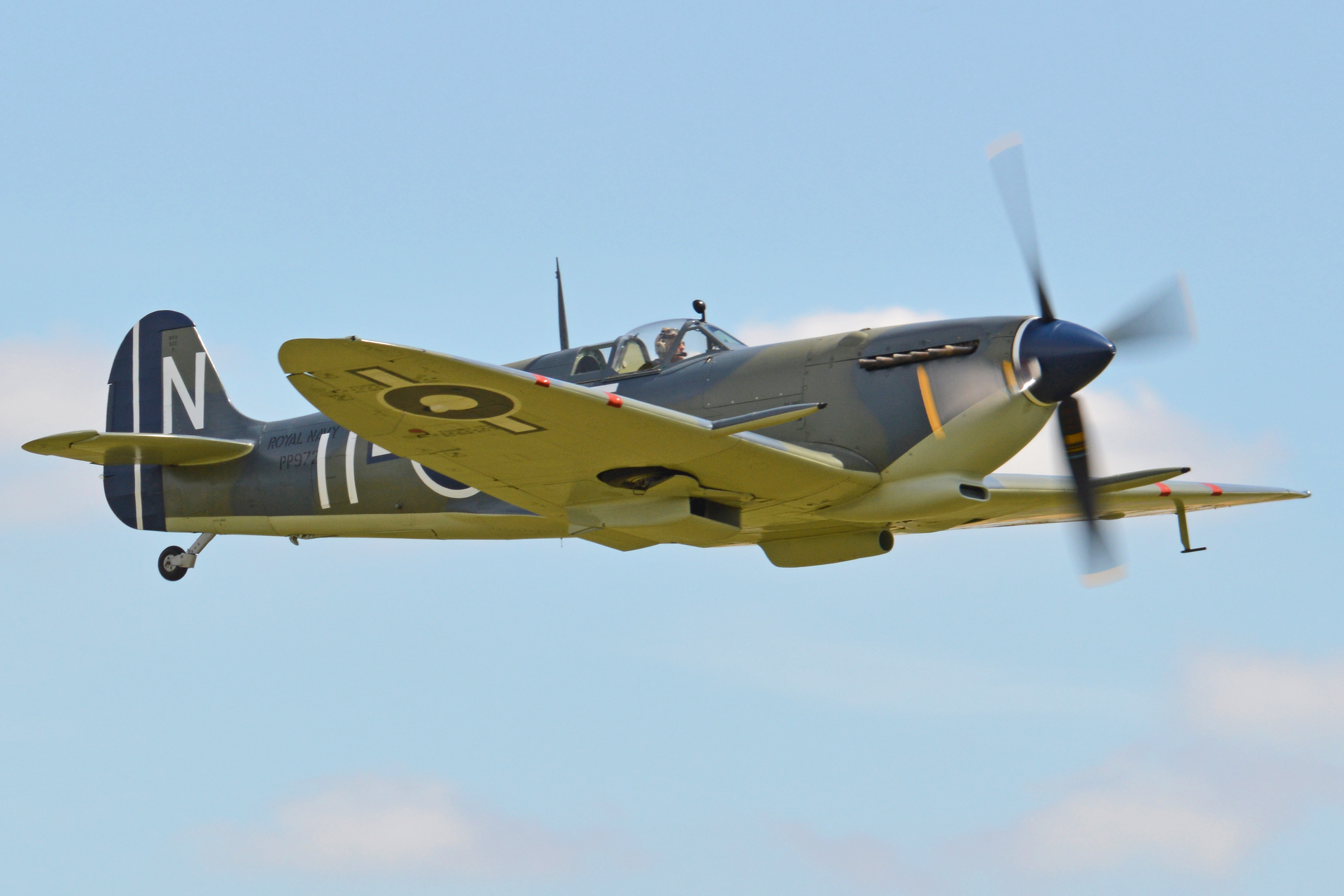 c/n [unknown] Royal Navy serial ‘PP972’ Aeronavale serial ‘PP972’, coded ‘12F2’ later ‘1F9’. Now wears the markings of 880sqn Royal Navy, when based on HMS Implacable. Seen taking off at the 2017 Flying Legends Airshow. Duxford Airfield, Cambridgeshire, UK. 8th July 2017